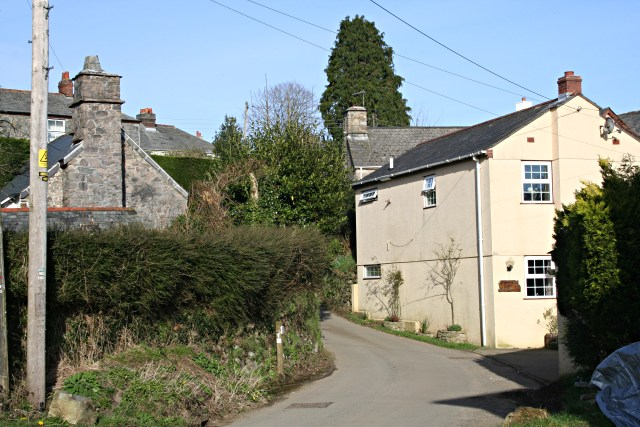 Lower Tremar 19th (or perhaps early 20th) century houses at the centre of the village.